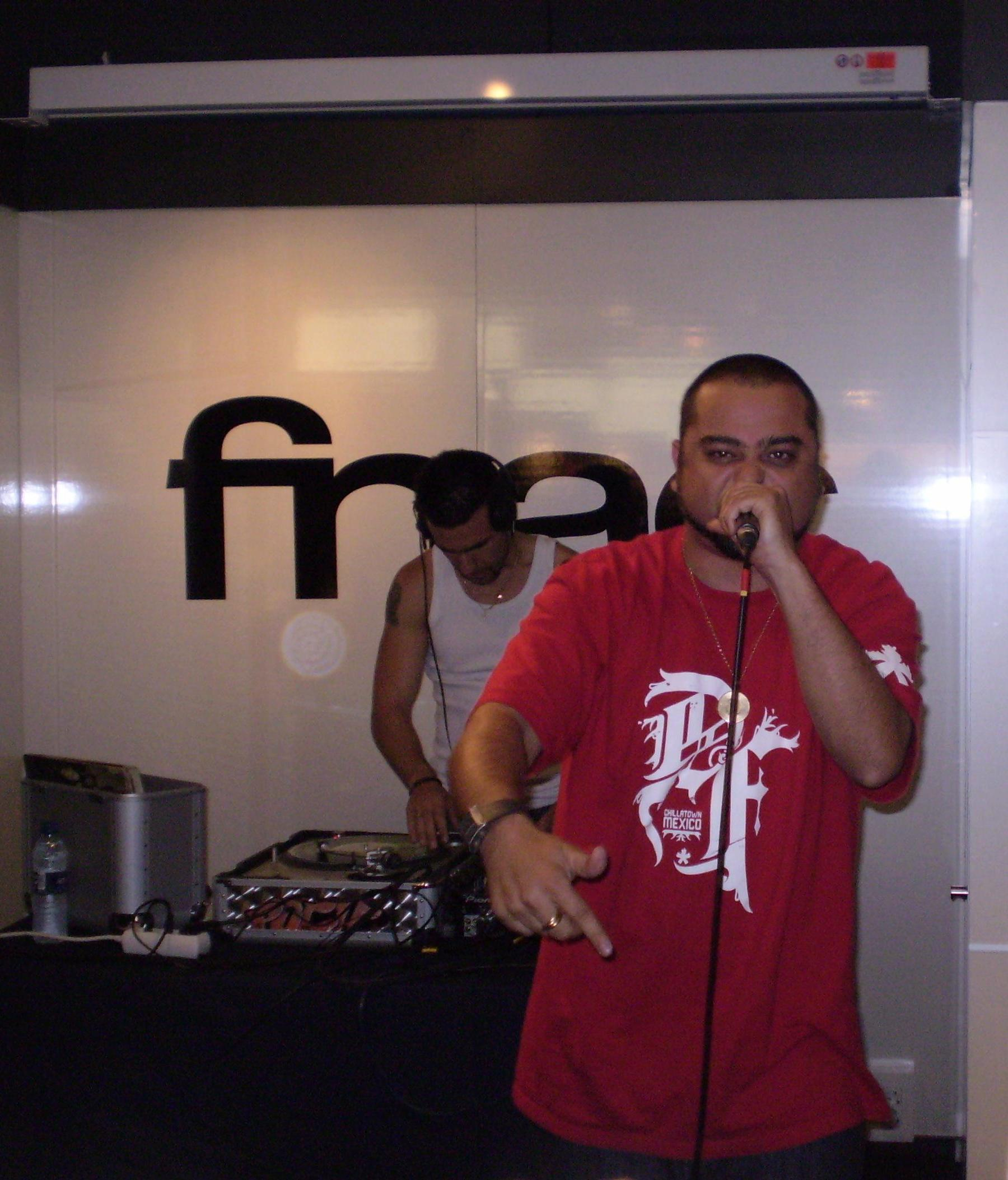 Nach is a Spanish Rapper. Nach live Murcia 2008.